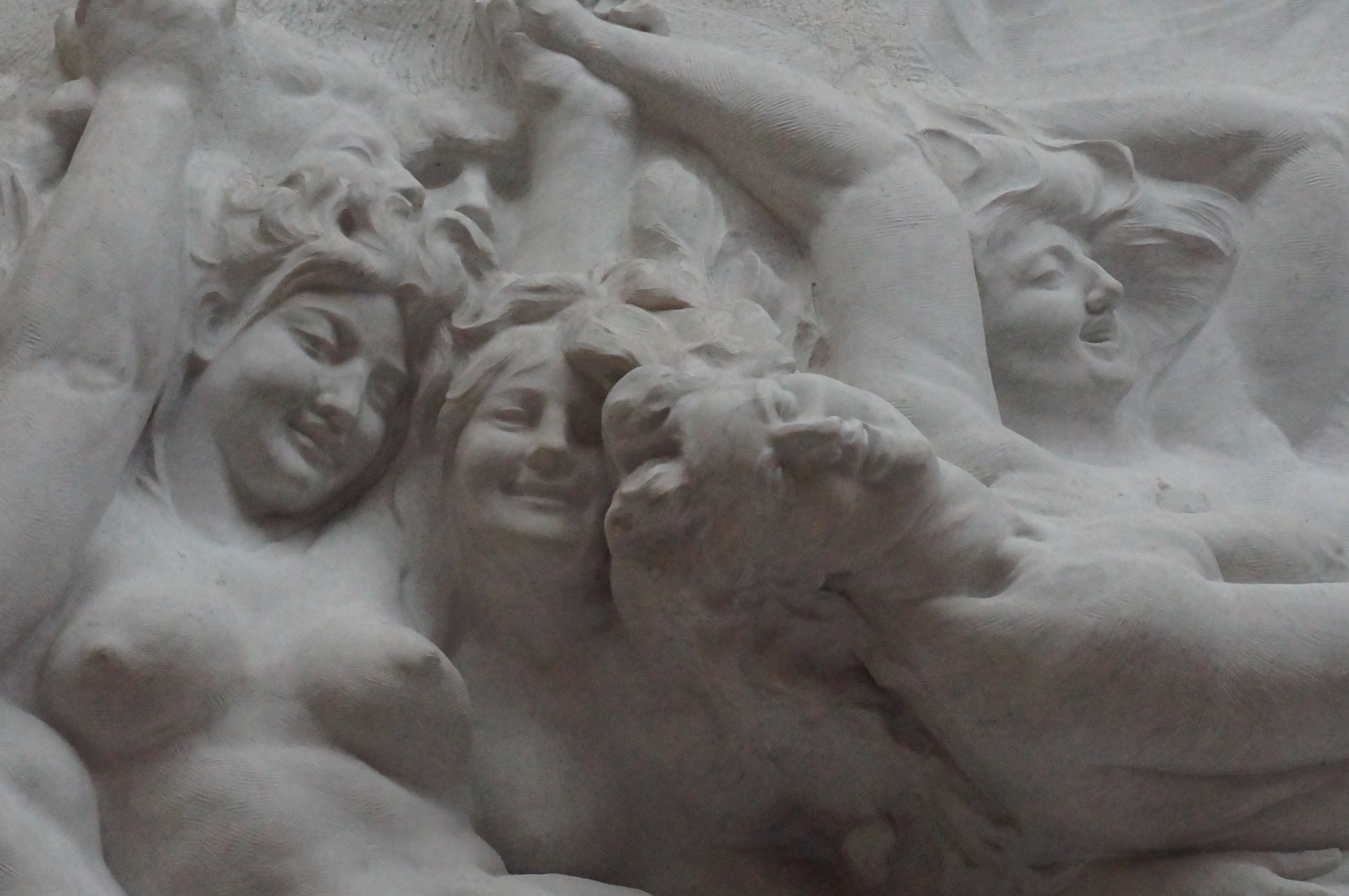 The Human Passions is a giant marble bas-relief, by Jef Lambeaux, sculpted between 1886 and 1898. It is housed in the specially designed Horta-Lambeaux pavilion in the Cinquantenaire Park in Brussels. This detail depicts youth and happiness.